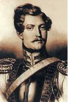 Georges-Charles D'Anthès (1812-1895)